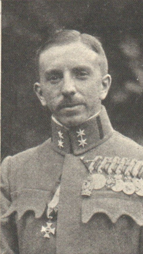 Military Order of Maria Theresa; investiture in 1918